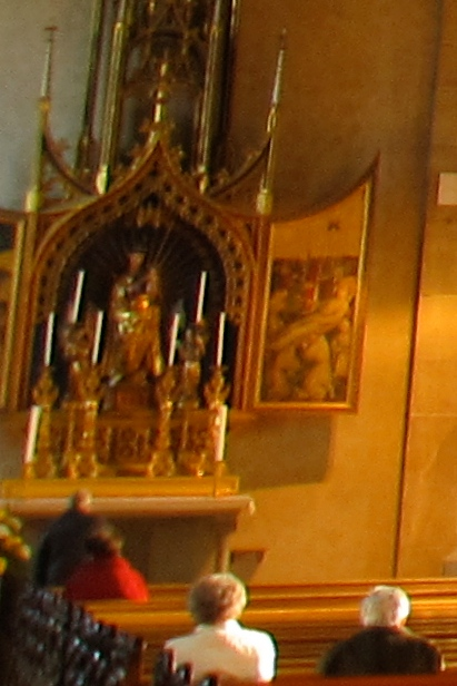 Statute in Rottweil, Germany that is the source of the Marian apparition Our Lady of the Turning Eyes